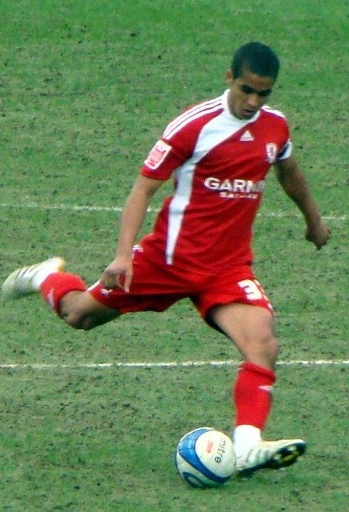 Kyle Naughton playing for Middlesbrough.